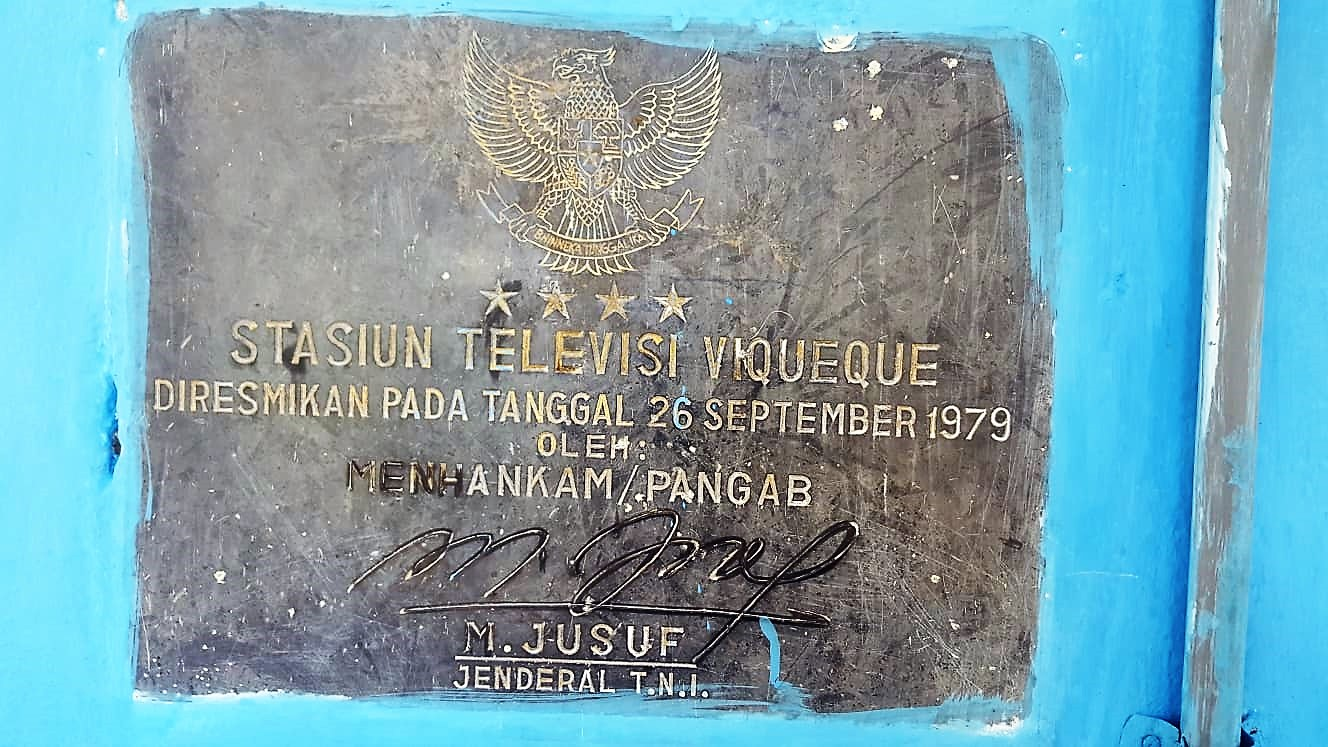 Plaque of TVRI on today radio station of RPV in Dilor, East Timor